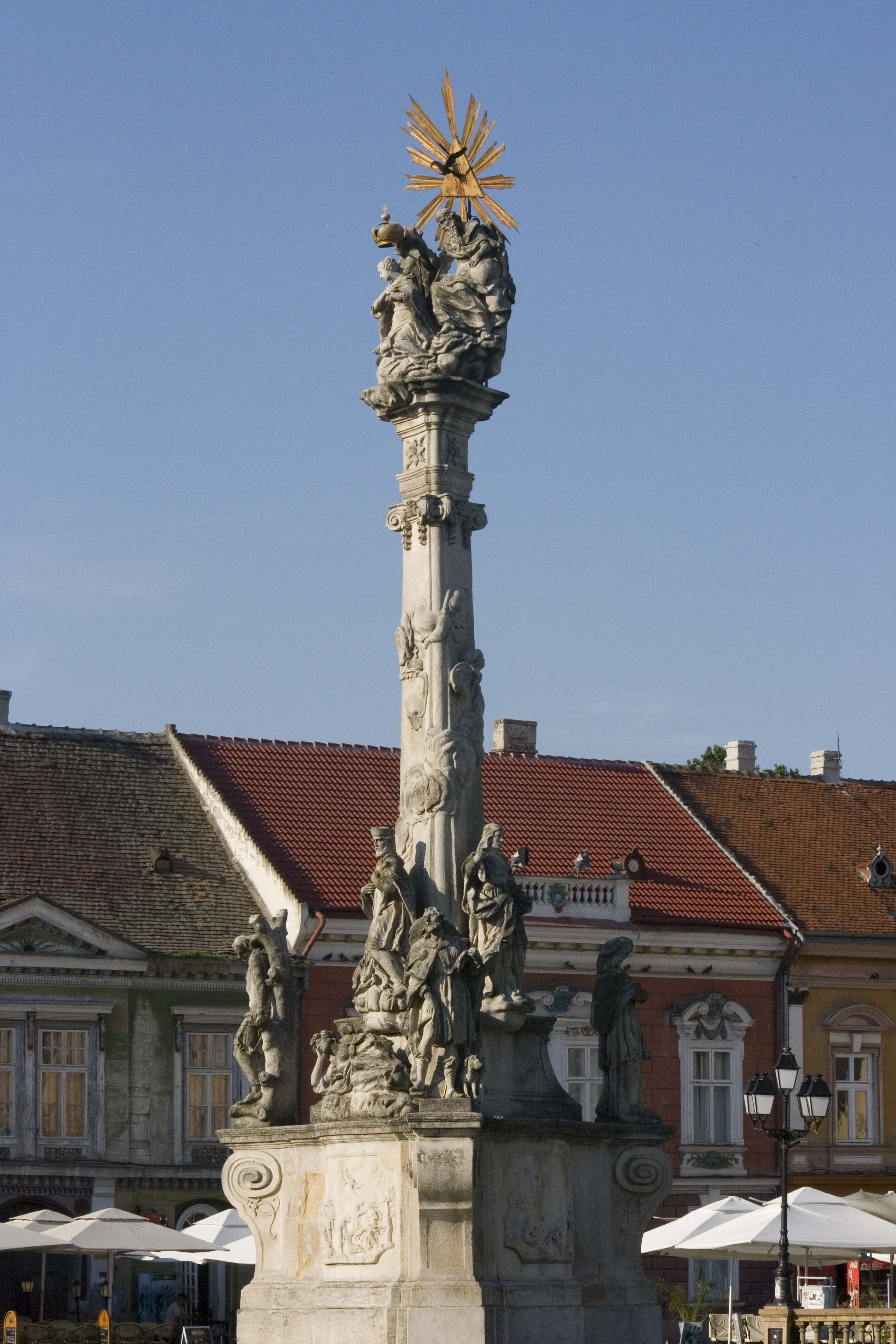 Holy Trinity Monument, Timișoara